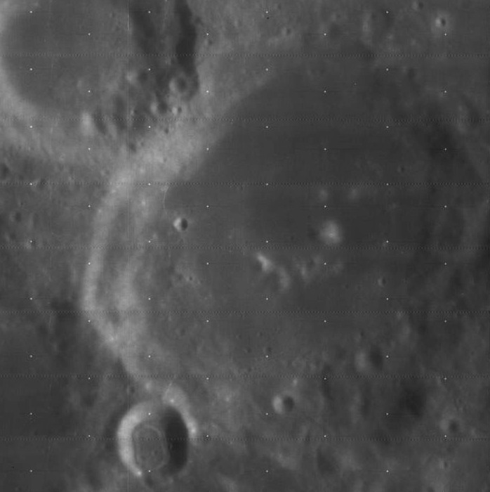 Colombo, on the moon.